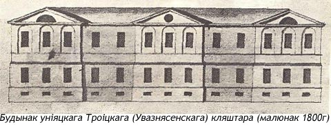 Troitsky monastery (klyashtar) in Minsk, Belarus. 1800.